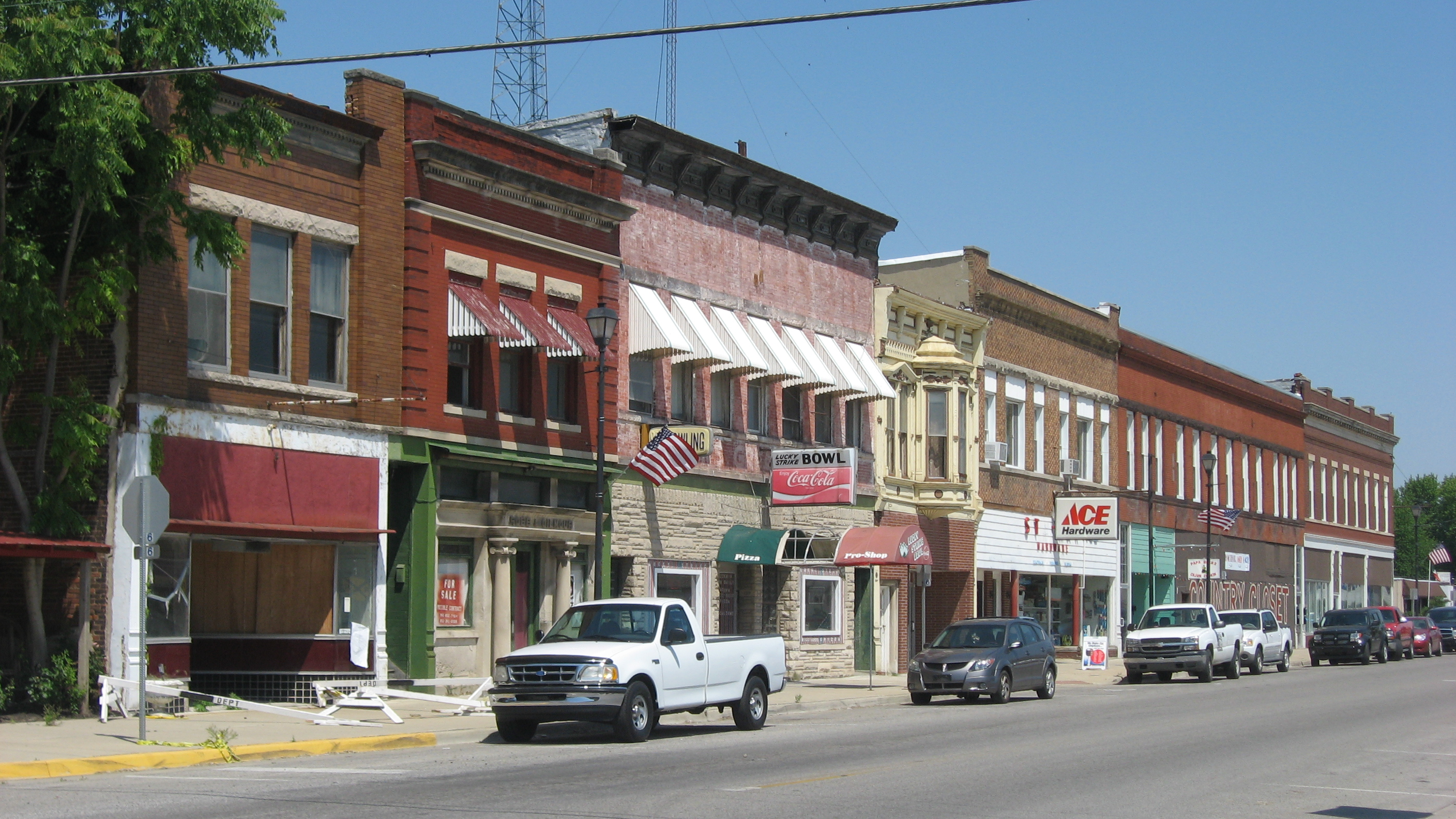 Buildings on the western side of the 100 block of S. Main Street in Clinton, Indiana, United States. From left to right, they are: 145 S. Main, none, 1915 141 S. Main, Neoclassical, 1910 — formerly Citizens Bank 139 S. Main, Italianate, 1900 137 S. Main, Queen Anne, 1900 125 S. Main, none, 1910 111 S. Main, none, 1910 — shares an address with its neighbor 111 S. Main, Neoclassical, 1915 — shares an address with its neighbor This block is part of the Clinton Downtown Historic District, a historic district that is listed on the National Register of Historic Places.